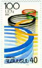 Stamp of Armenia